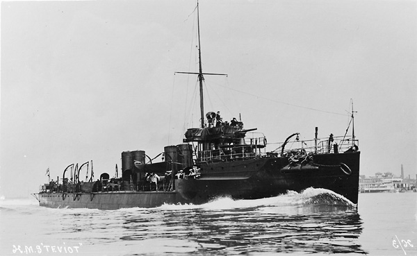 Torpedo boat destroyer HMS ‚Teviot‘Reproduction ID:: N02160Maker: Unknown